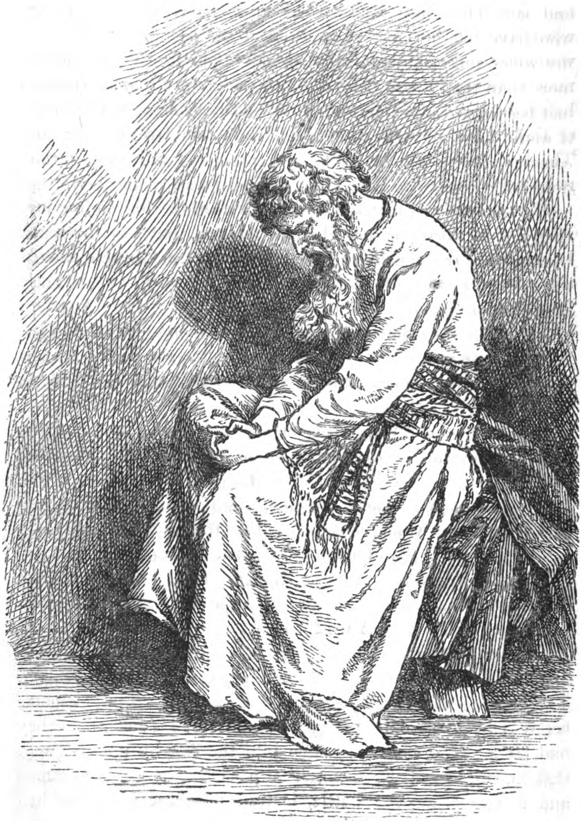 David mourning for Absalom.